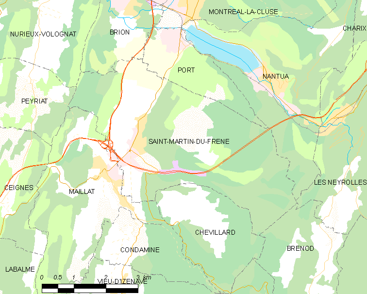 Map of French commune: Saint-Martin-du-Frêne Map commune FR insee code 01373.png